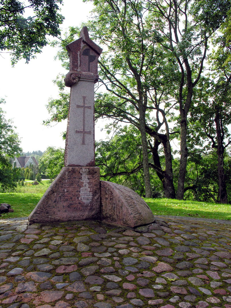 A monument to fallen soldiers in Seda, Lithuania